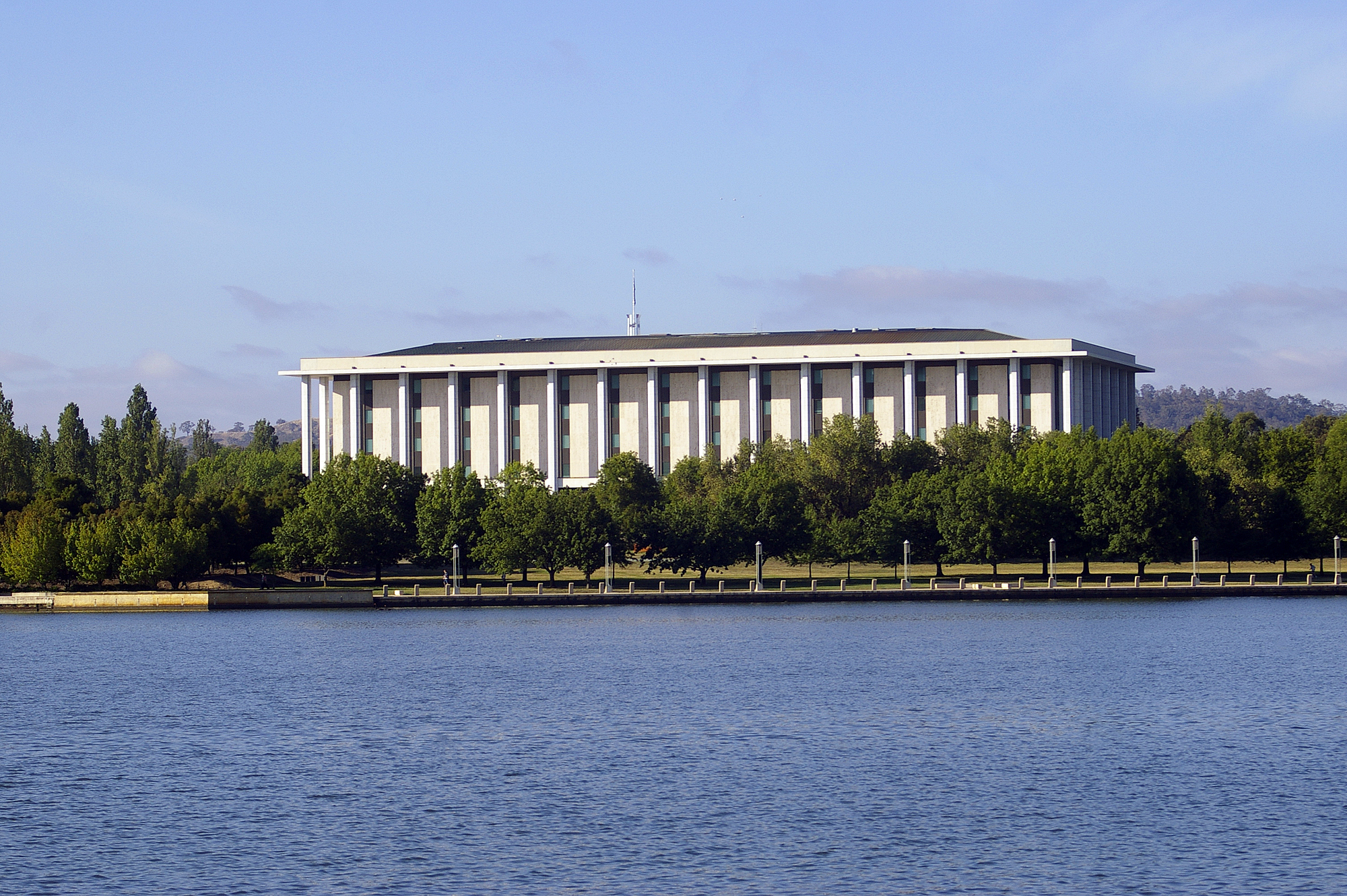 National Library of Australia viewed across Lake Burley Griffin from Commonwealth Park.